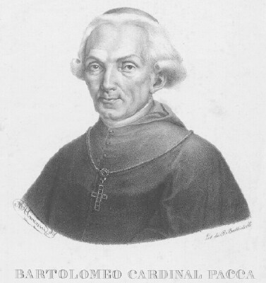 Engraved portrait of Cardinal Bartolomeo Pacca (1756-1844)